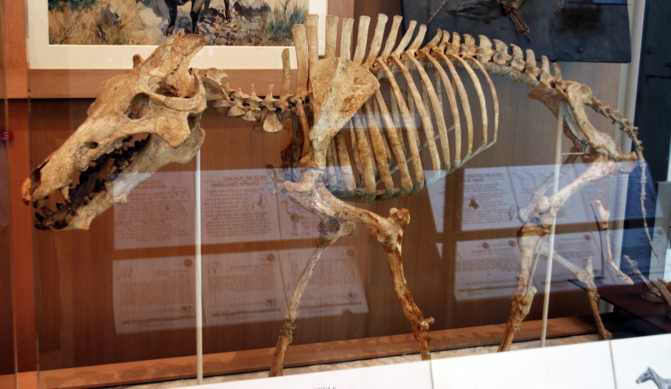 Archaeotherium mortoni